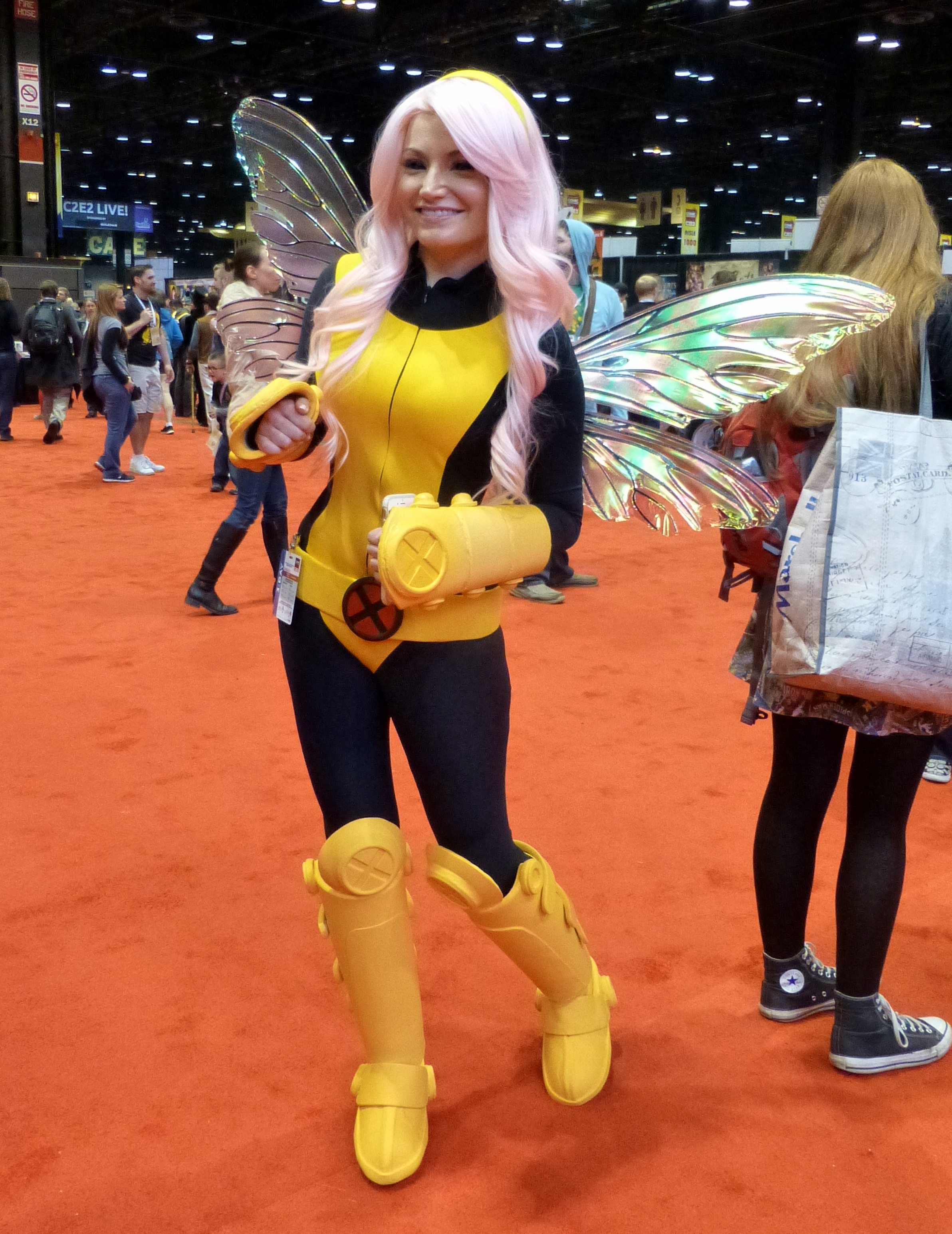 Pixie Cosplay at Chicago Comic & Entertainment Expo (C2E2) 2015.